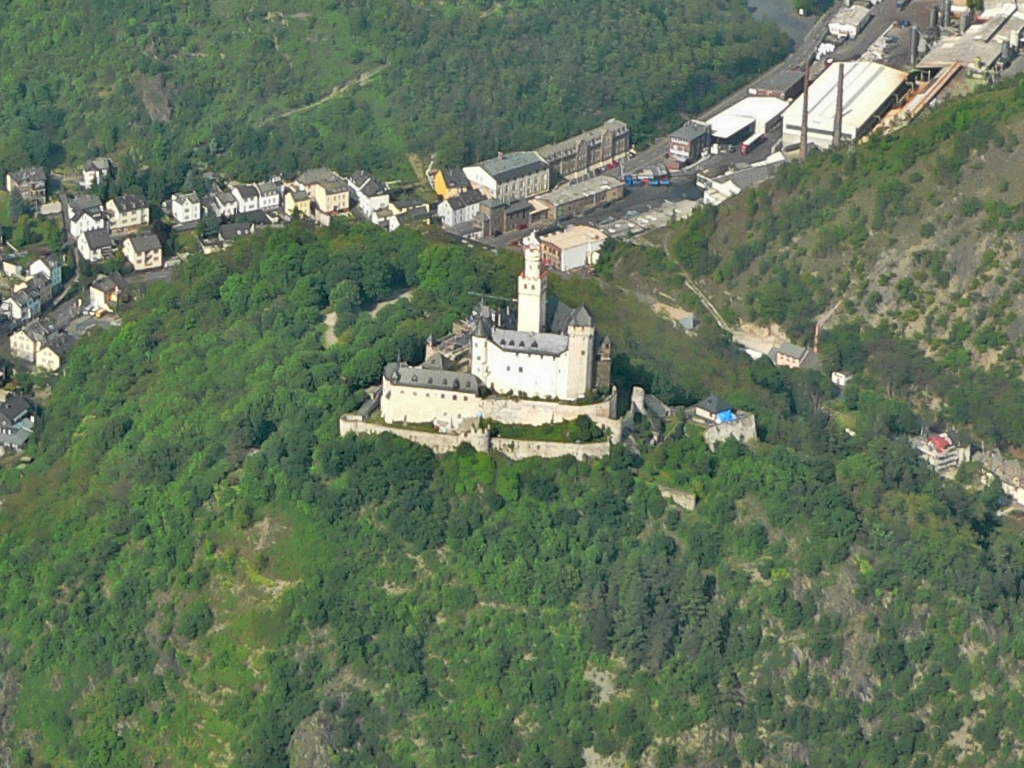 Marksburg, aerial view, close up